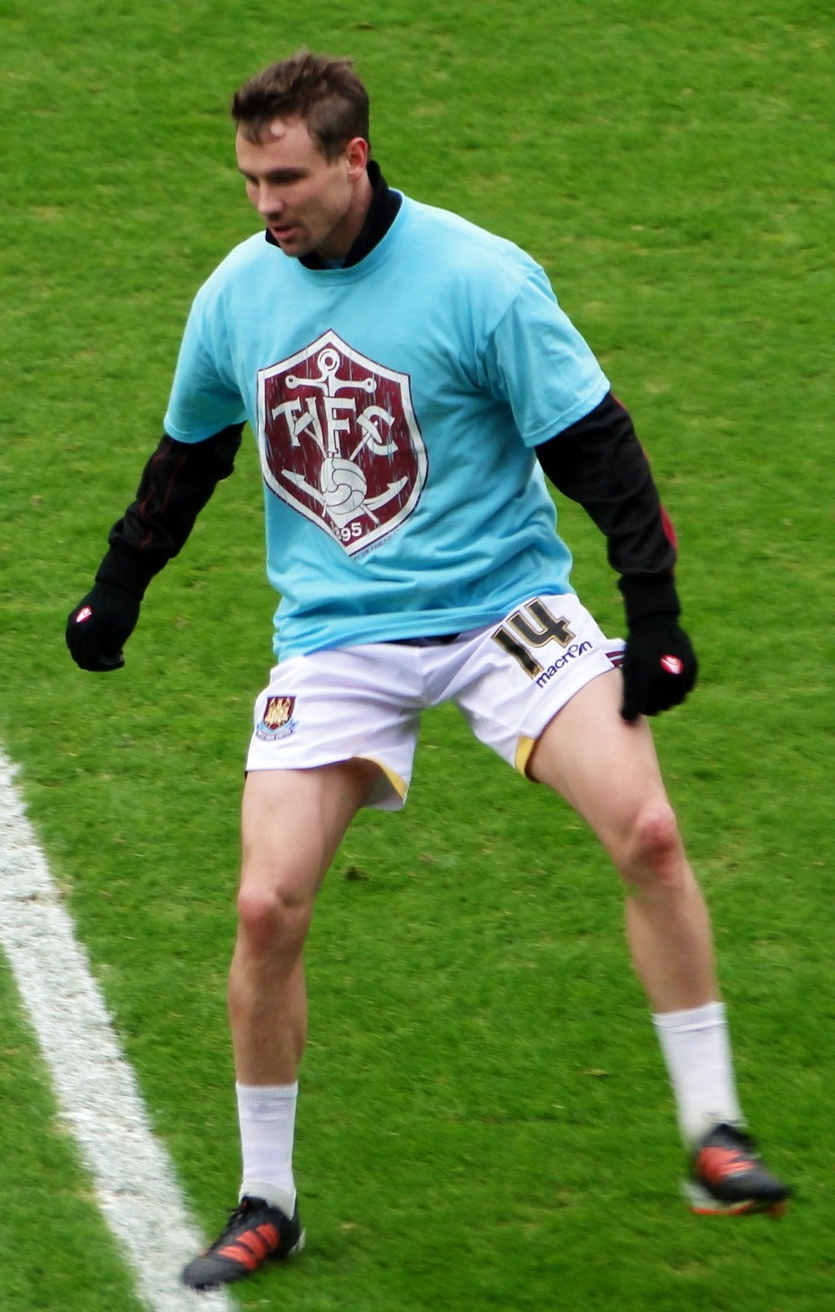 West Ham United player, Matt Taylor warming up before their game against Millwall at The Boleyn Ground in 2012